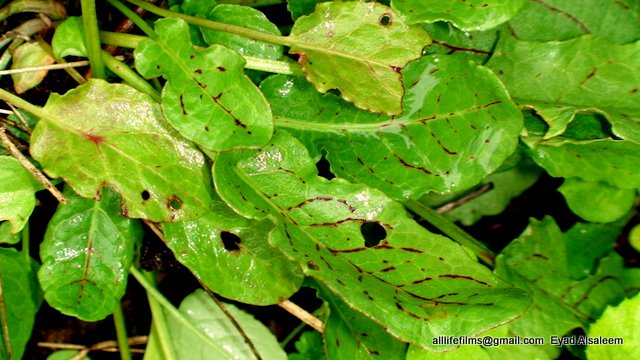 نباتات برّية سورية تؤكل